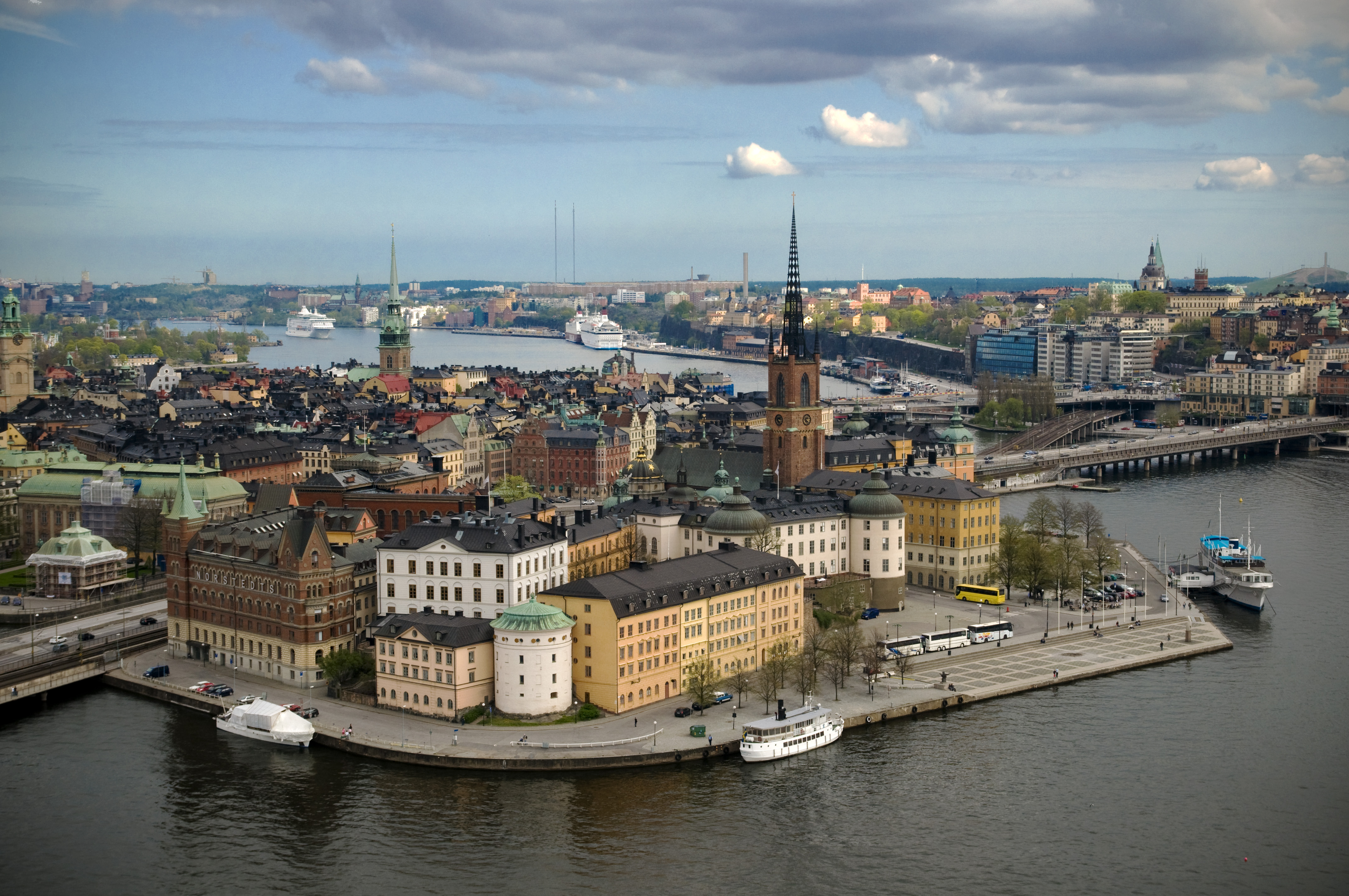 Riddarholmen in Stockholm as seen from the top of the City Hall tower.